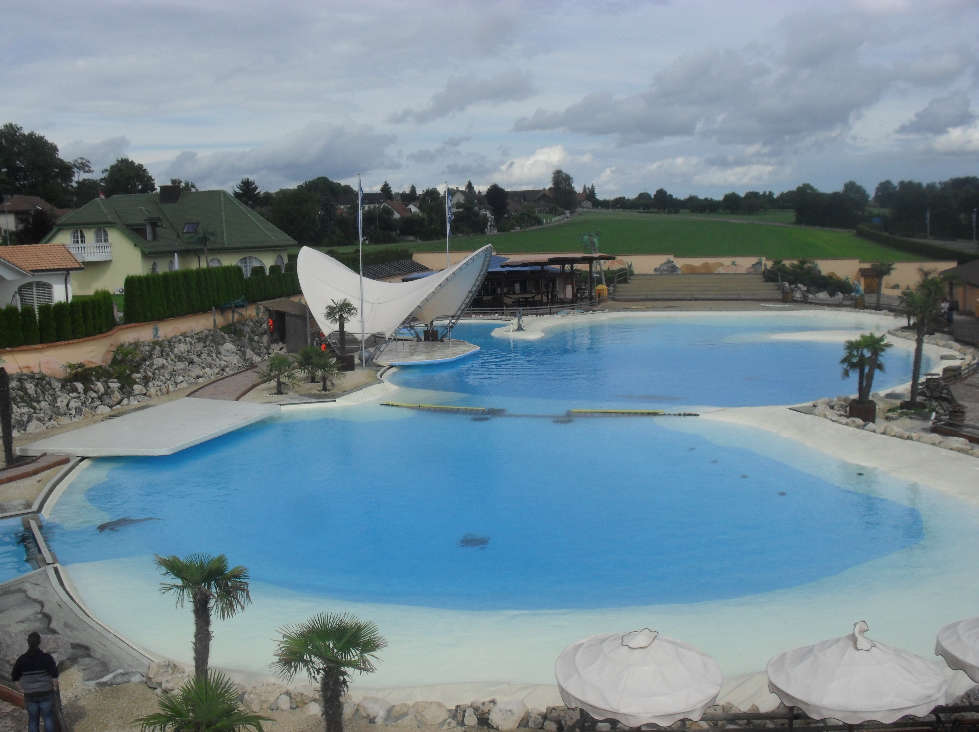 Conny-Land dolphinarium